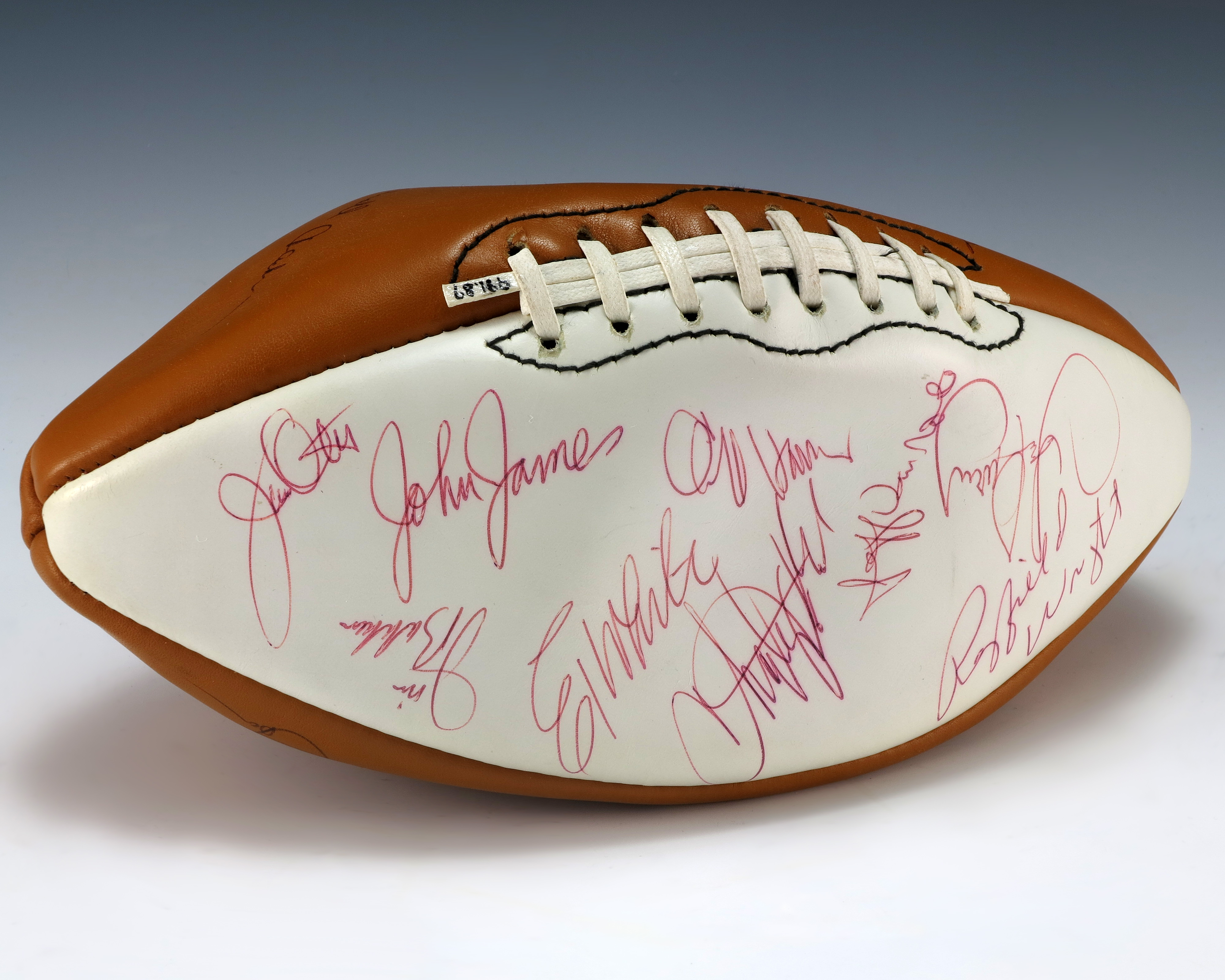 A football that contains one white and three brown panels. There are several notable signatures including Hall of Fame's Merlin Olsen, Dan Dierdorf, Tom Mack, Rayfield Wright, Ron Yary, Charley Taylor, Ken Houston, Jack Youngblood, Paul Krause, Charley Sanders and Roger Wehrli.